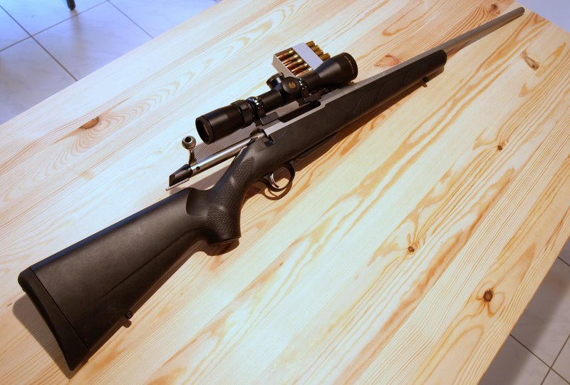 Tikka T3 bold action rifle